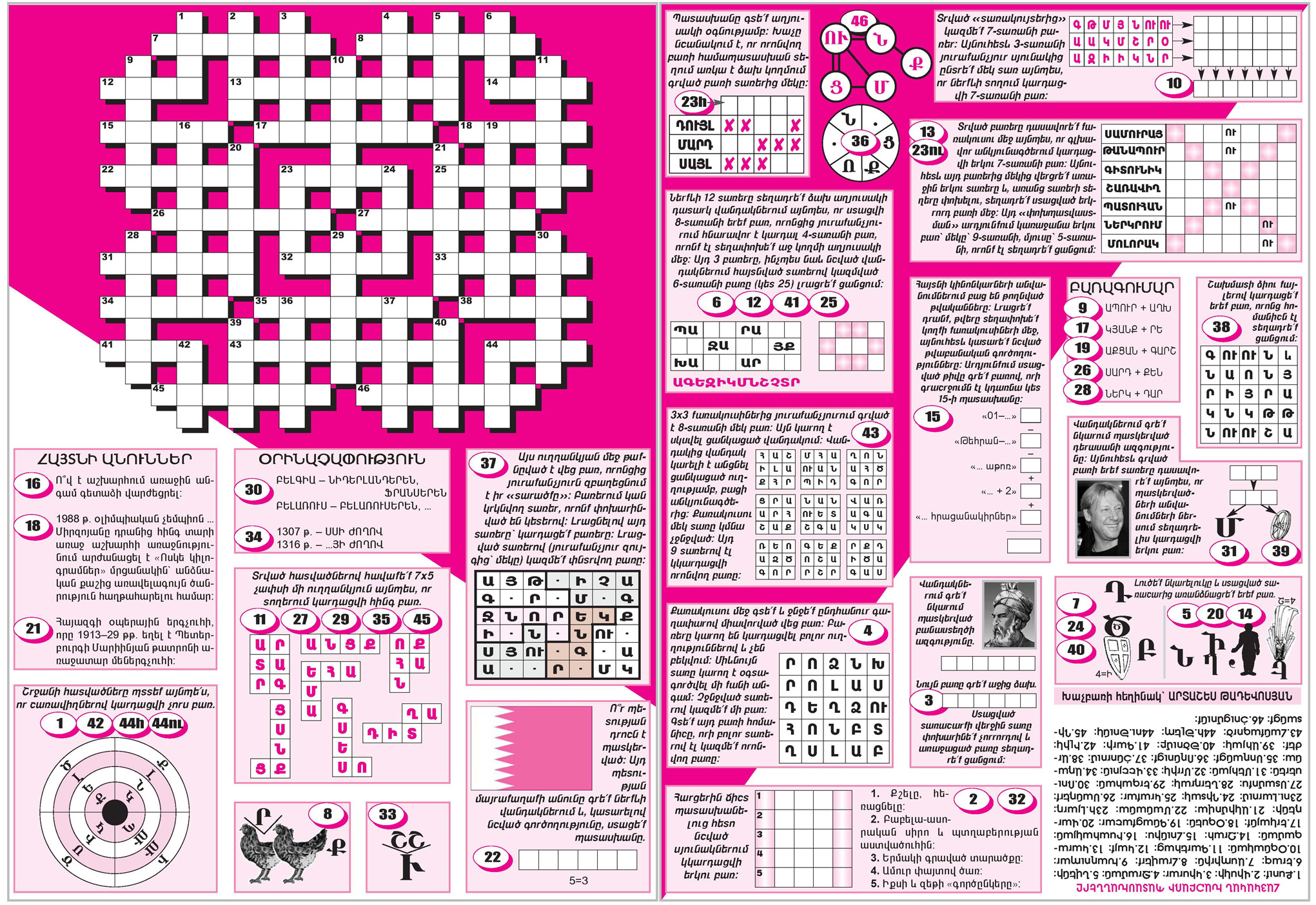 Armenian crossword